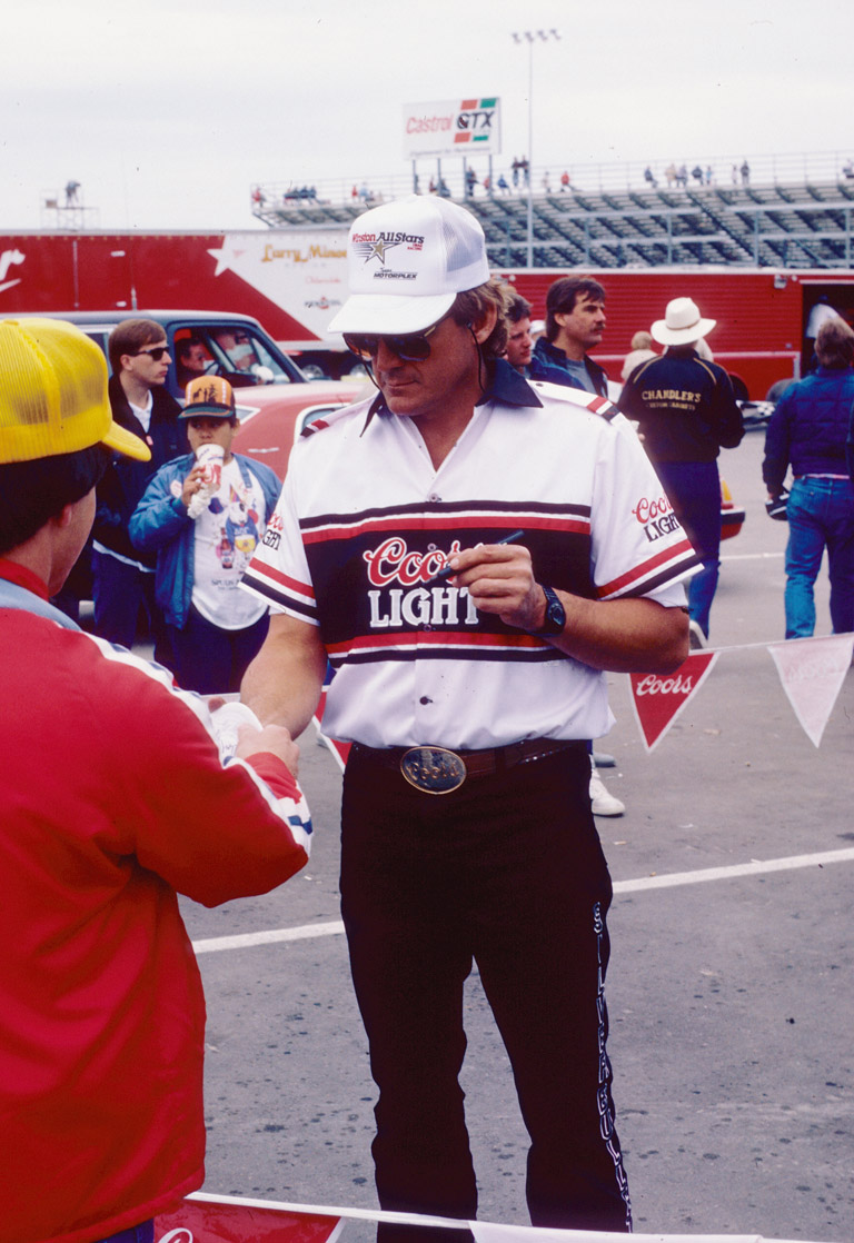 Dan Pastorini, former Houston Oilers quarterback during his time as a Top Fuel driver for Coors Light.